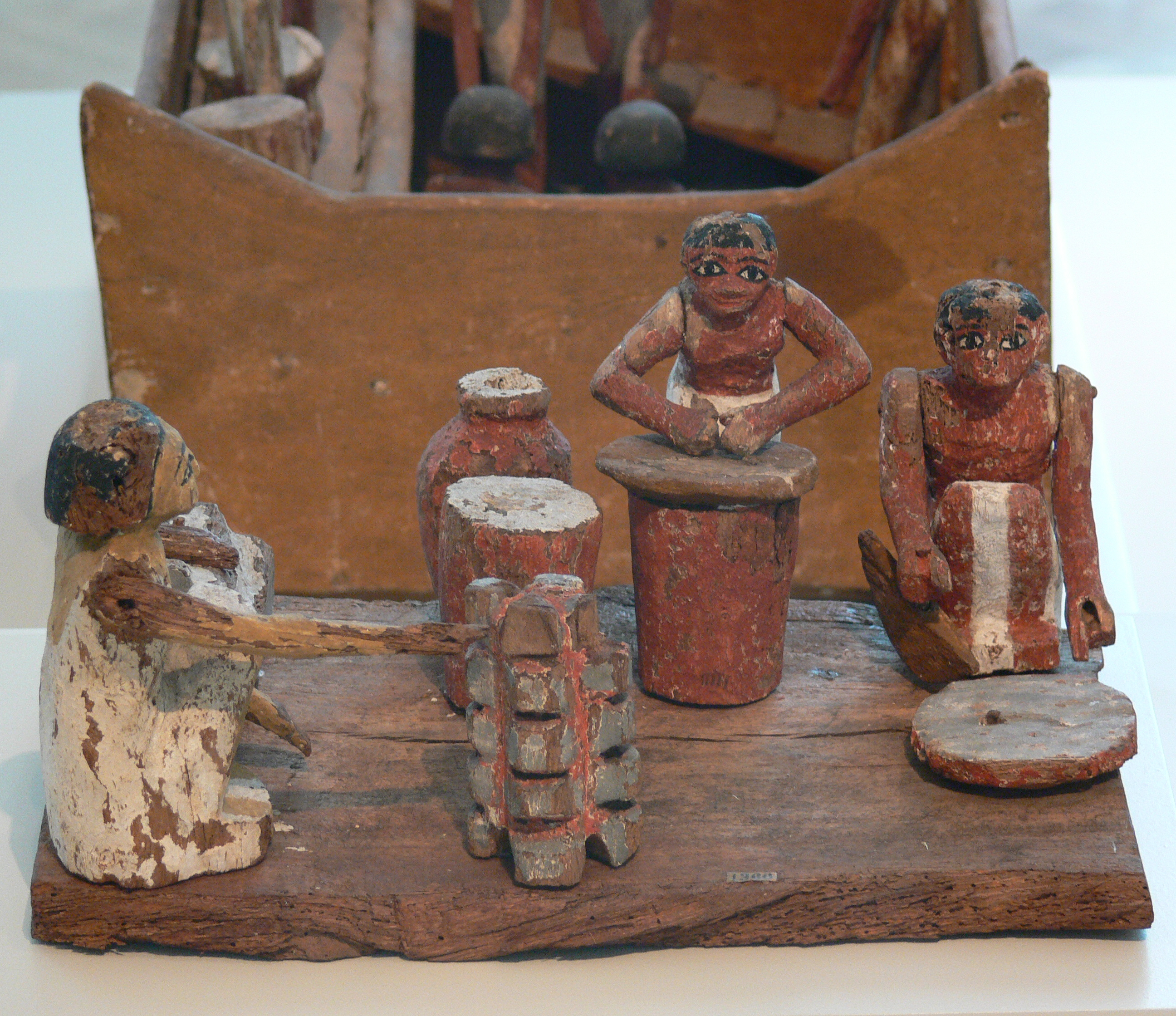 Kitchen model; workers grinding, baking and brewing; 12th dynasty, 2050-1800 BC. Egyptian Museum Berlin, Inv. 1366